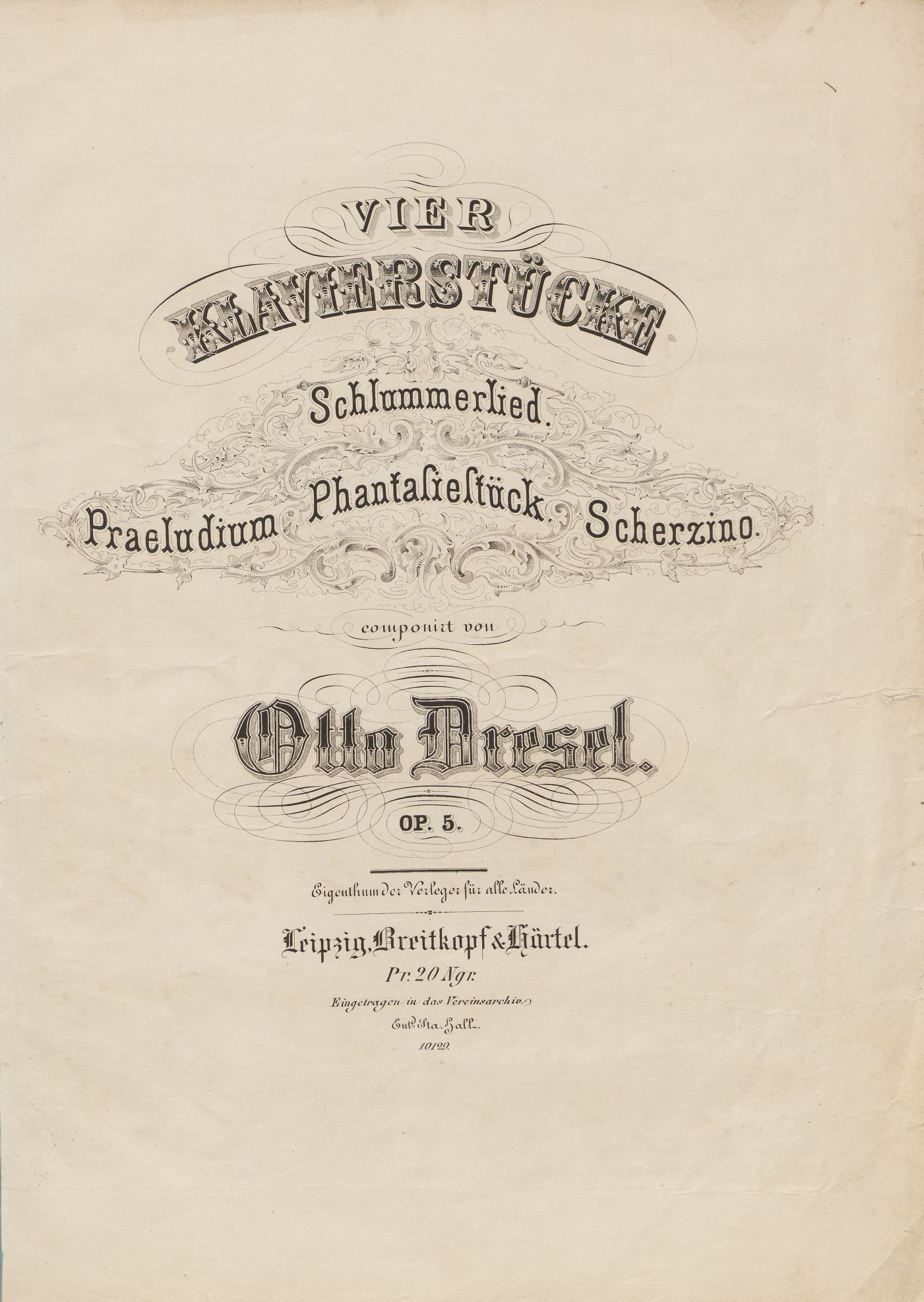 Title page for Vier Klavierstücke: Schlummerlied, Praeludium, Phantasiestück, Scherzino: op. 5, [Leipzig, Germany: 1861]. By Otto Dresel (1826-1890). Mus.D8163K op.5, Houghton Library, Harvard University